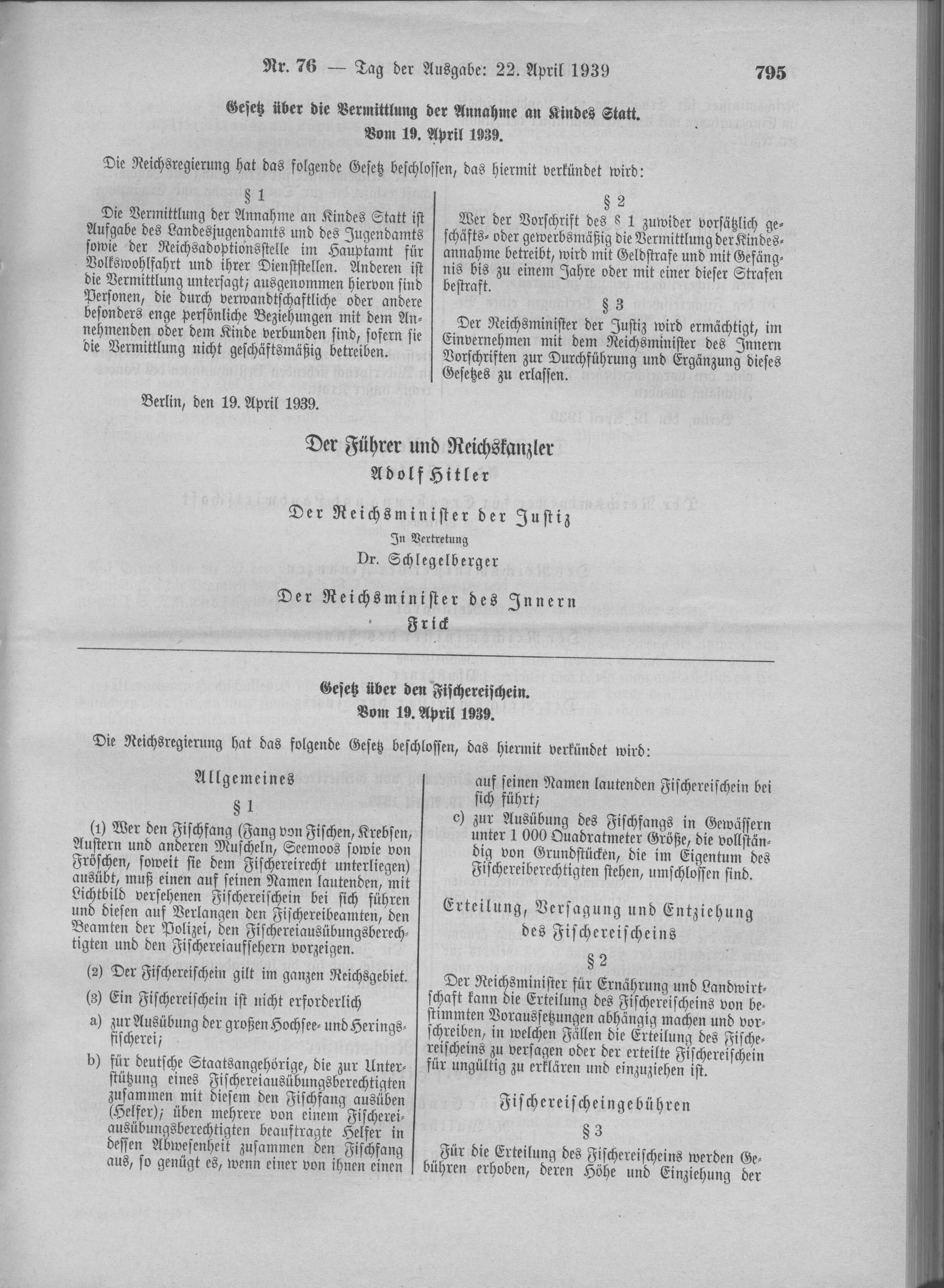 Scan from the Imperial Law Gazette of Germany, 1939, part 1